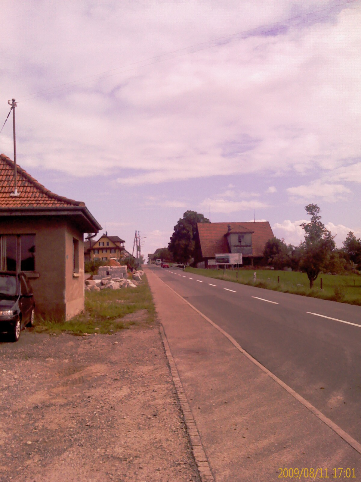 Altwis, canton of Luzern, SwitzerlandEsperanto: Altwis, Kantono Lucerno, Svislando